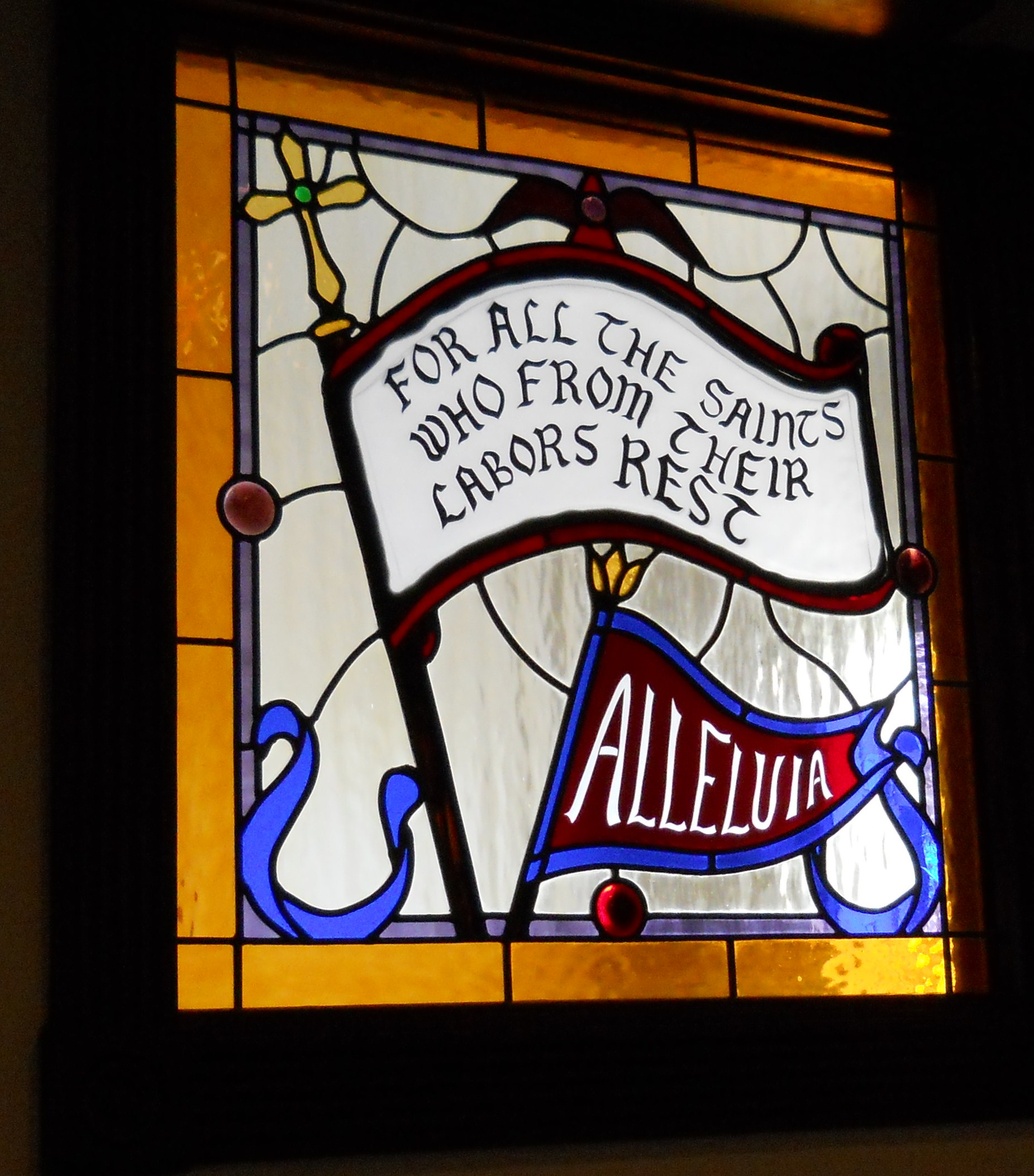 All Saints Episcopal Church, Jensen Beach. Florida: Alleluia memorial window between nave and narthex. "For All the Saints" was written as a processional hymn by the Anglican Bishop of Wakefield, William Walsham How. The hymn was first printed in Hymns for Saint's Days, and Other Hymns, by Earl Nelson, 1864.